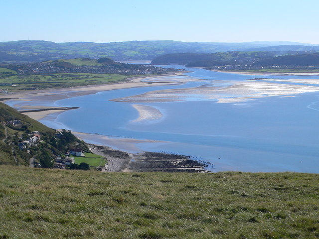 Conwy Estuary The Conwy estuary from Great Orme's head.